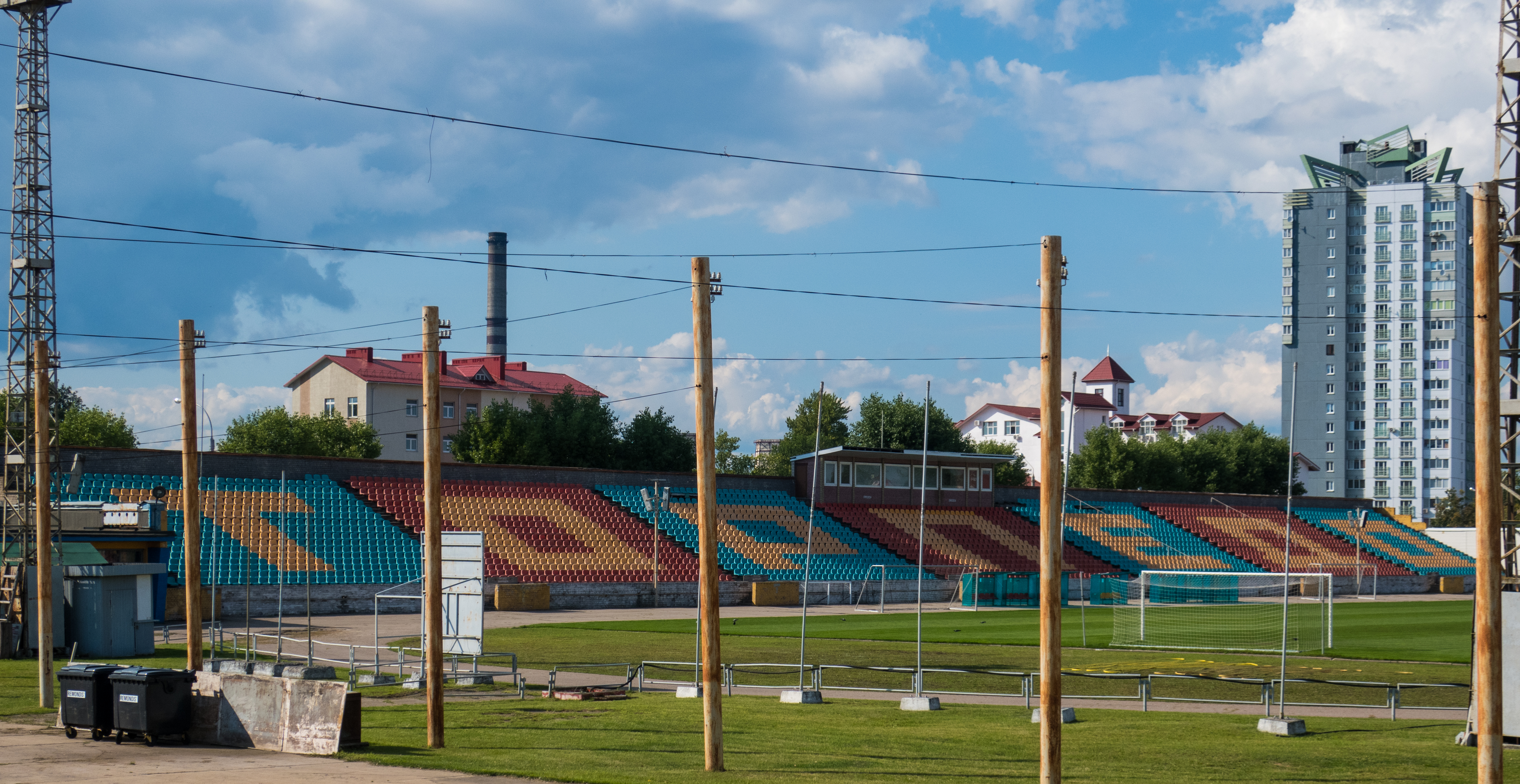 Tarpeda (Torpedo) stadium. Minsk, Belarus